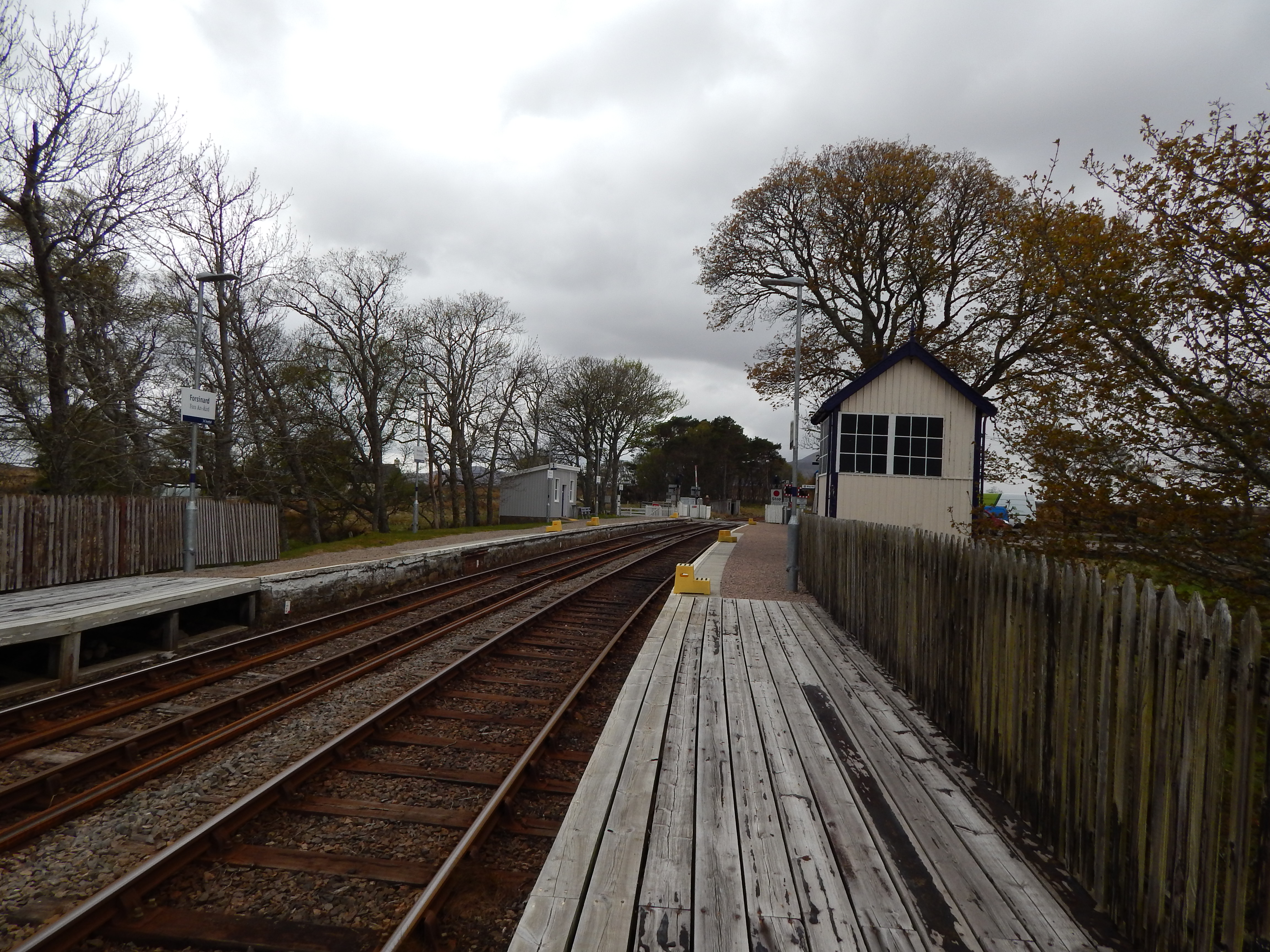 An overview of Forsinard station from the Northbound Platform